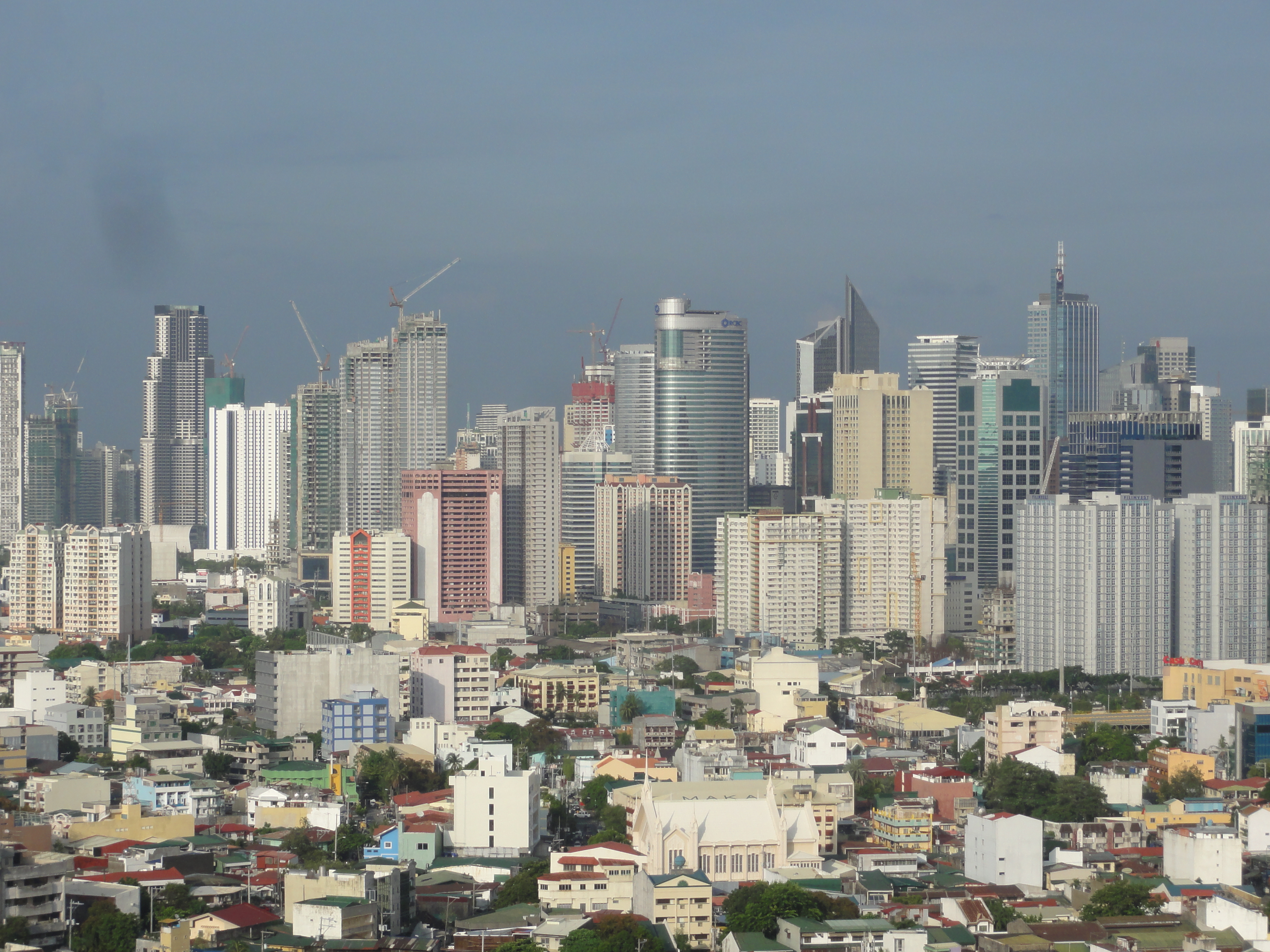 Makati skyline - shot From Cityland Tower Vito Cruz in Manila